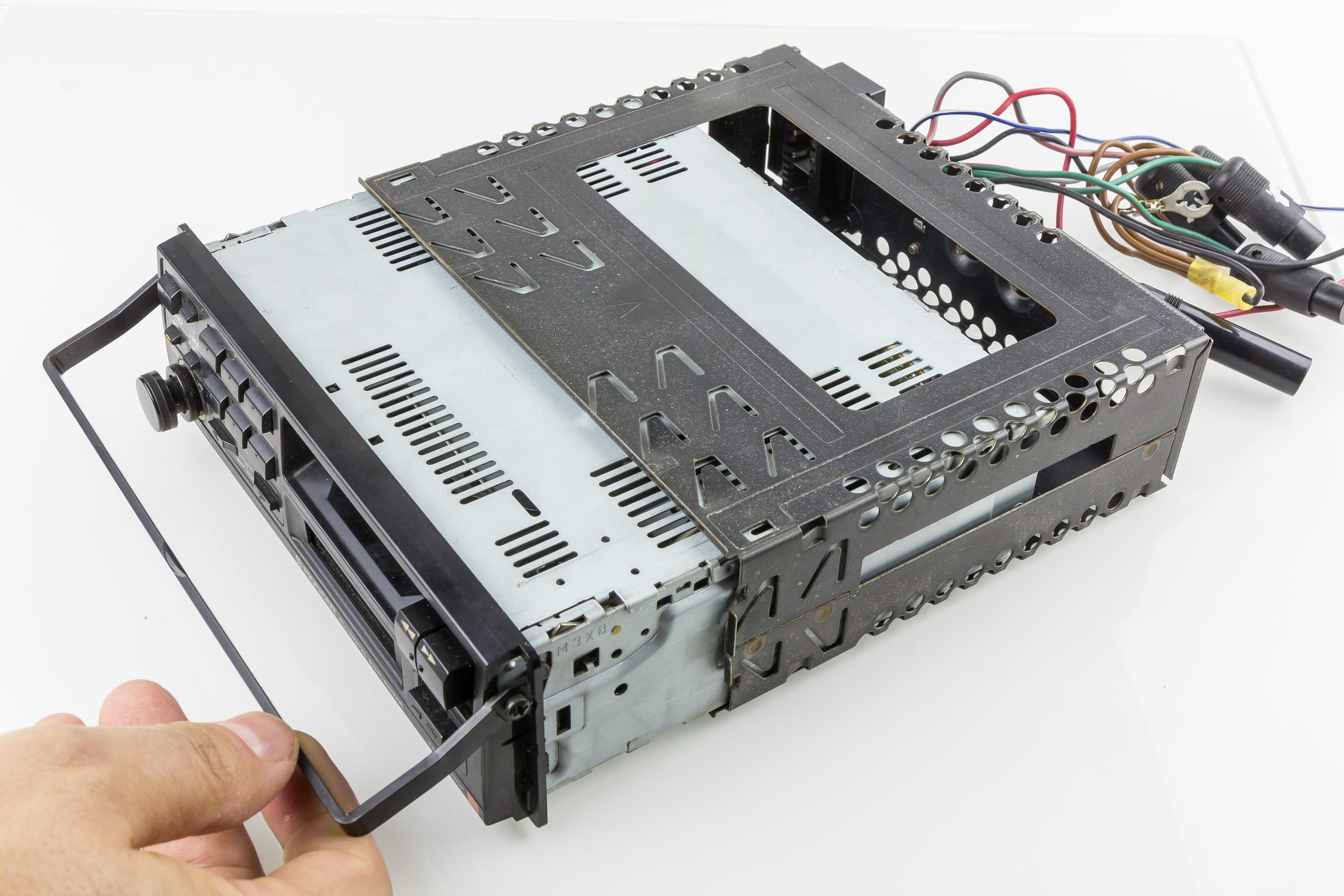 Pioneer KE-2090SDK - pulled out halfway of the holding